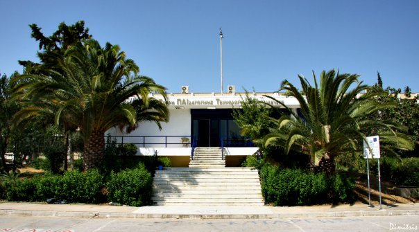 aspete.gr